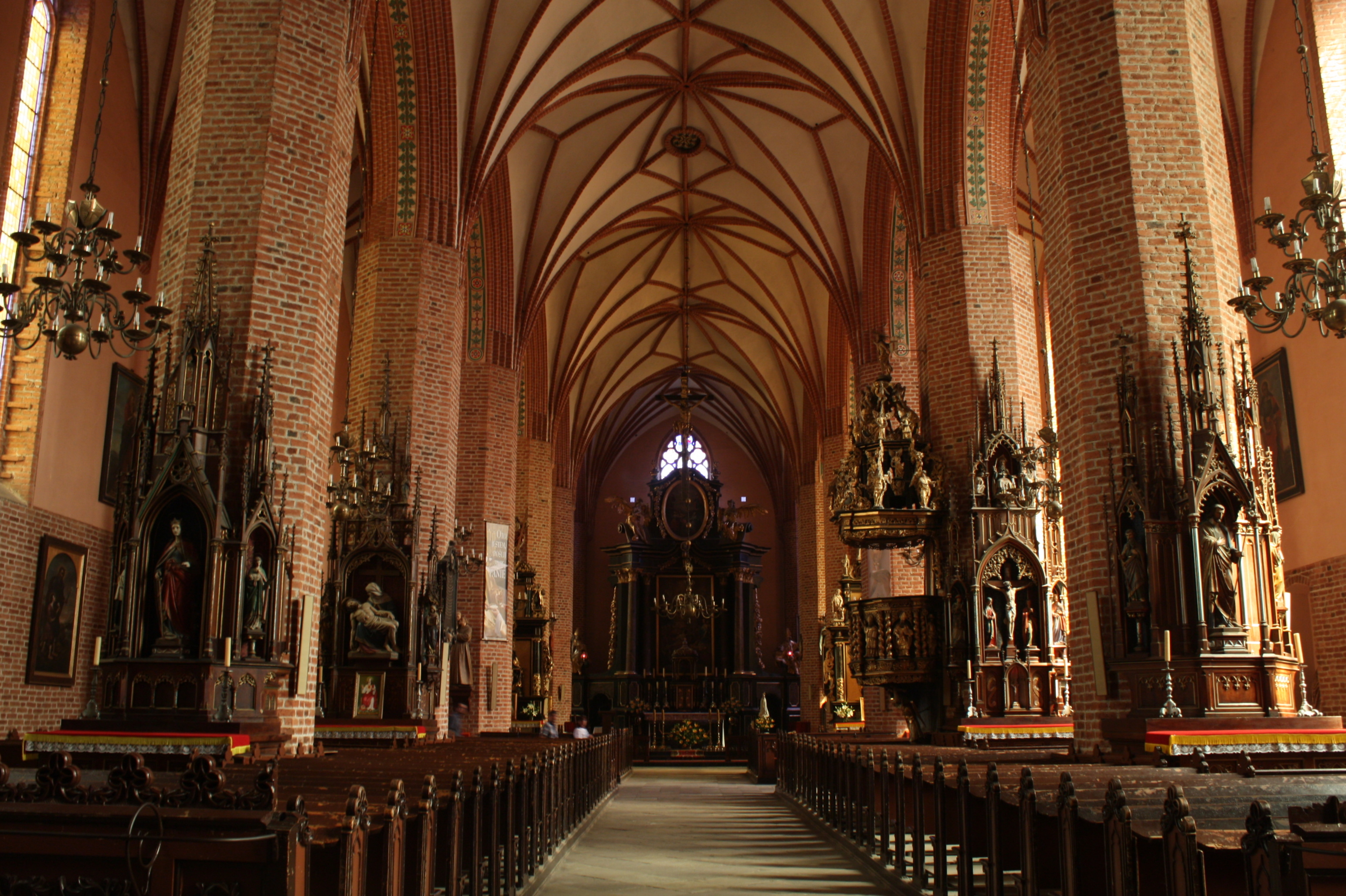 This photo of Warmian-Masurian Voivodeship was taken during Wikiexpedition 2012 set up by Wikimedia Polska Association. You can see all photographs in category Wikiekspedycja 2012. The making of this document was supported by Wikimedia Polska.